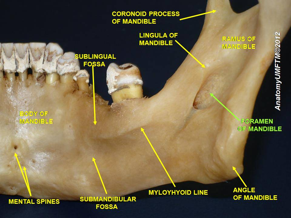 Anatomical dissections